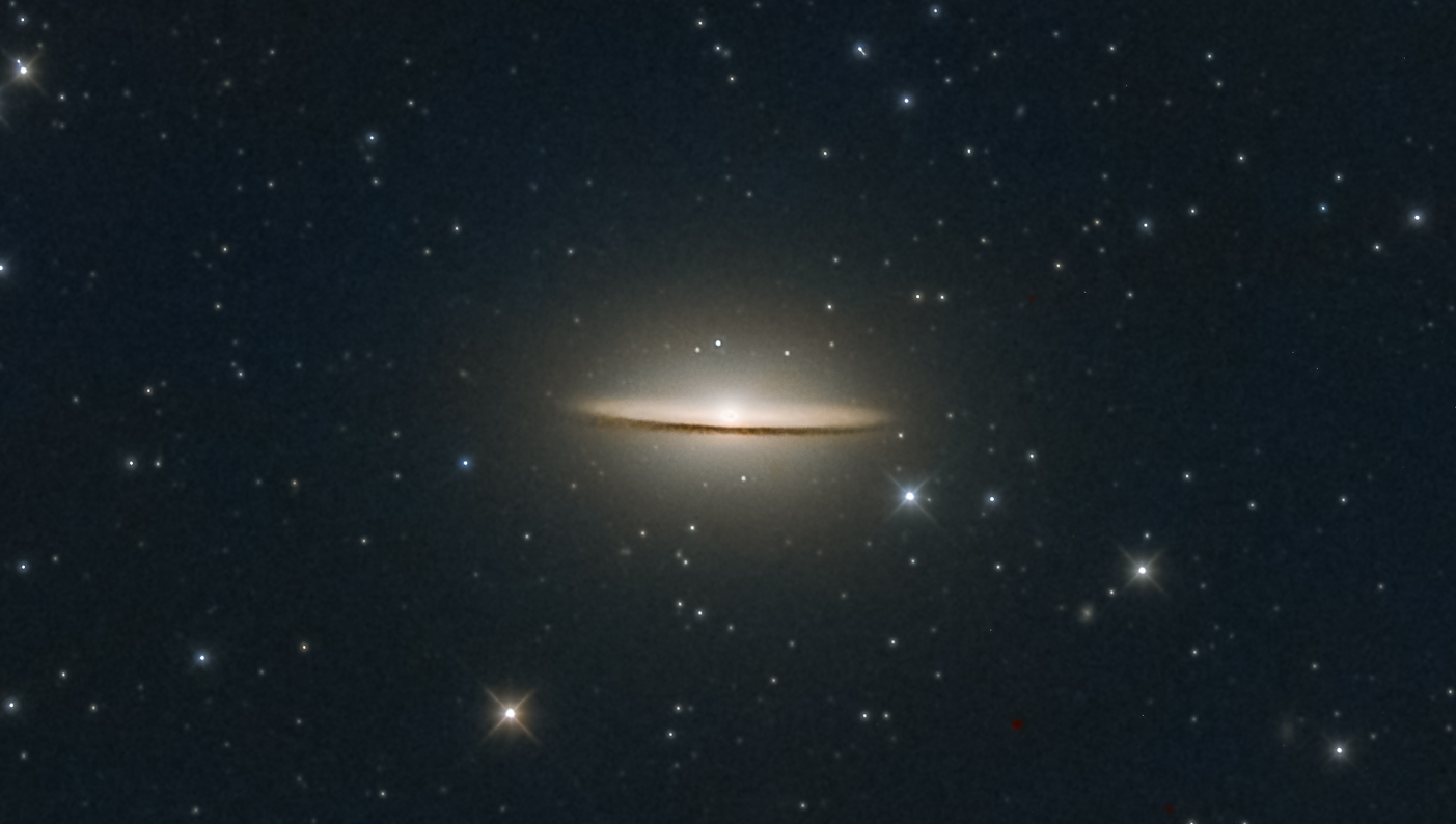 distance: ca. 31 Mio Lj Constellation: Virgo Equipment: GSO RC8 + CCDT67 Reducer 1100mm f5,5 Moravian CCD G2-8300FW Astronomik Ha Filter Astrodon RGB Filter Losmandy G11 LFE Photo Guiding: Starlight Lodestar an Celestron OAG PHD 4x1200 Luminanz 3x600 RGB total exposure time: 2.8hour Processing: PixInsight/Lightroom date: 19. May 2014 23. May 2014 05. June 2014